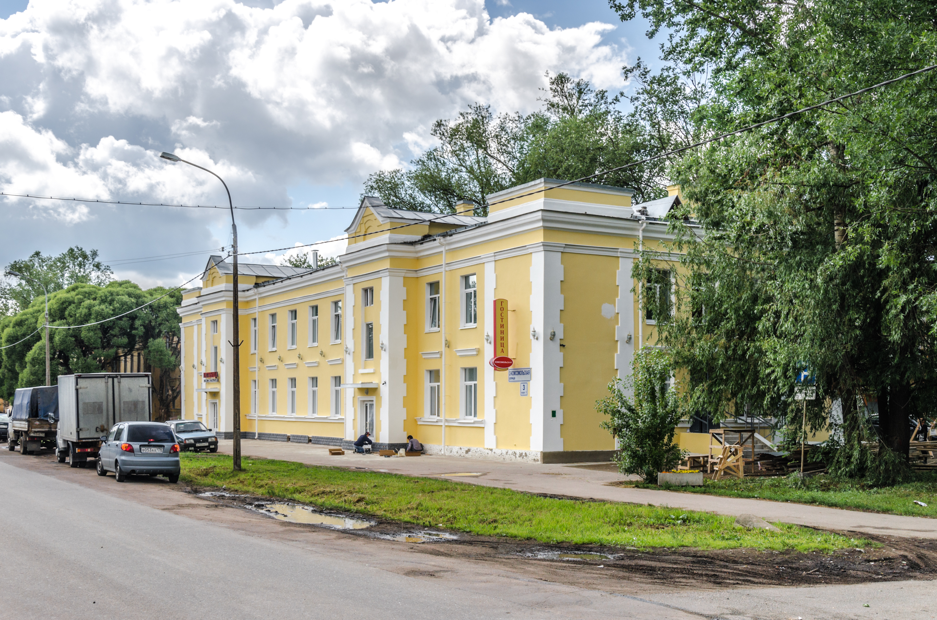 2nd Komsomolskaya street in Saint Petersburg, Russia